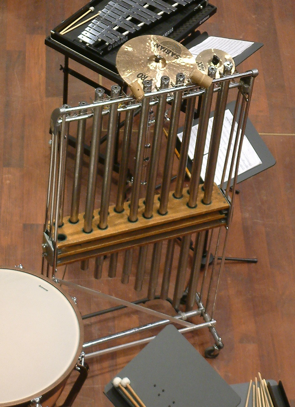 Academy of Music in Poznań, Aula Nova, Tubular bell